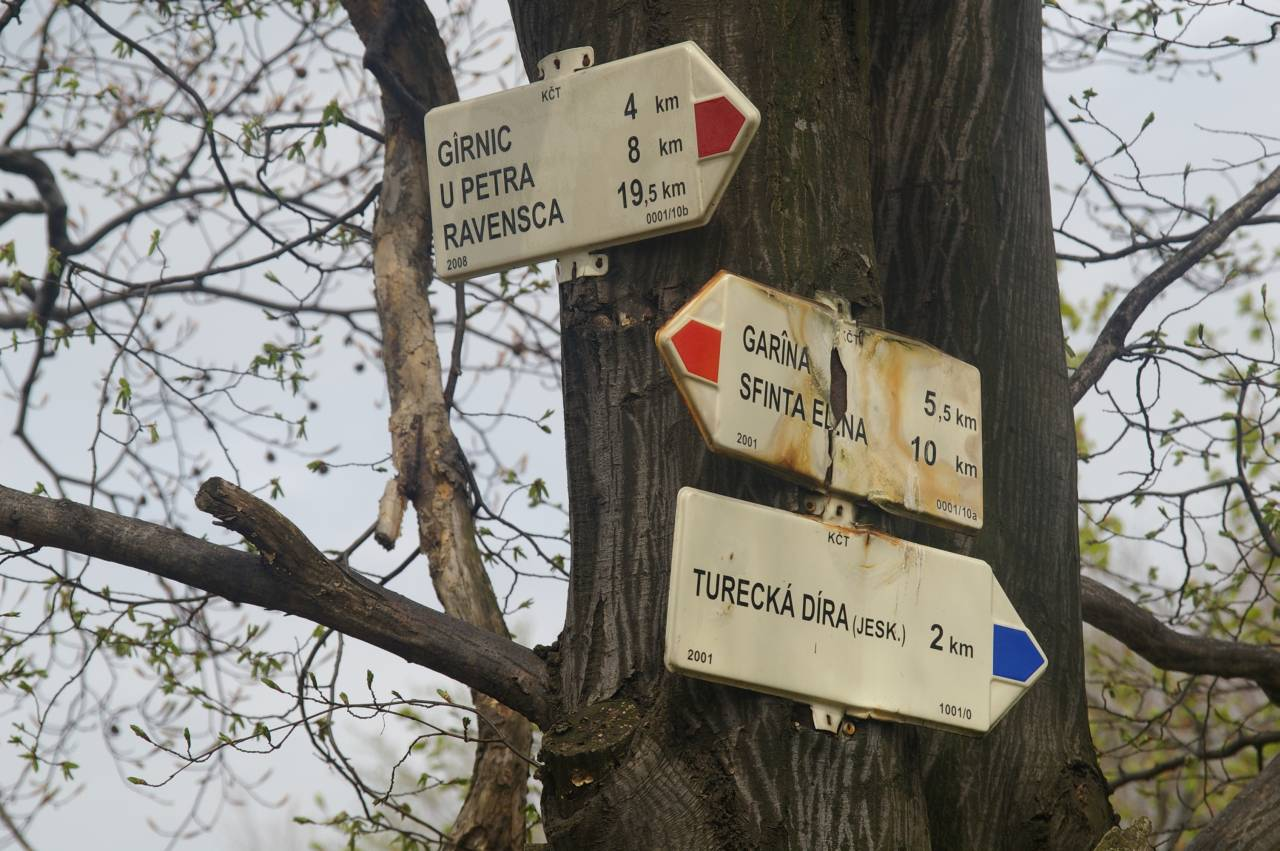 Crossroads in the Banat (Romania) between Gârnic and Sfânta Elena. Tagging by the Czech Hiking Club.